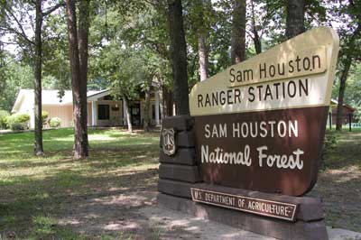 Sam Houston National Forest sign, Texas